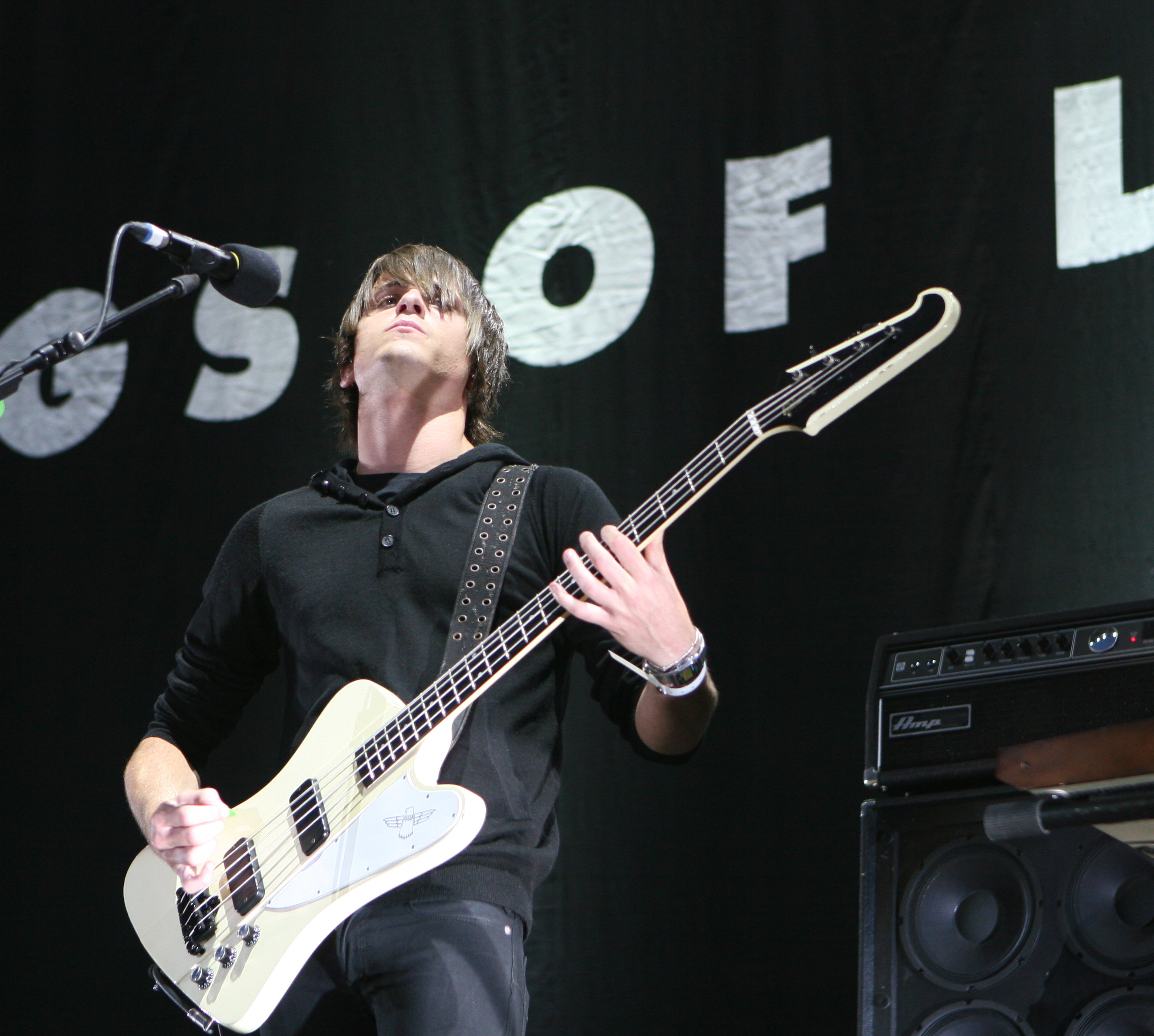 Kings of Leon